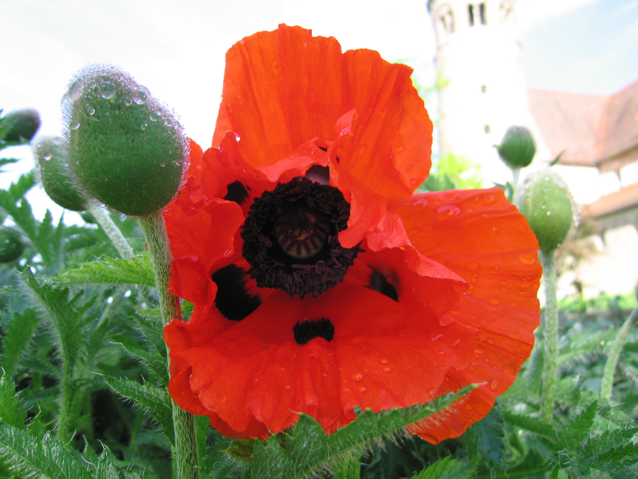 Closeup of a poppy flower at the Monastery of Lorch (Baden-Württemberg), Germany